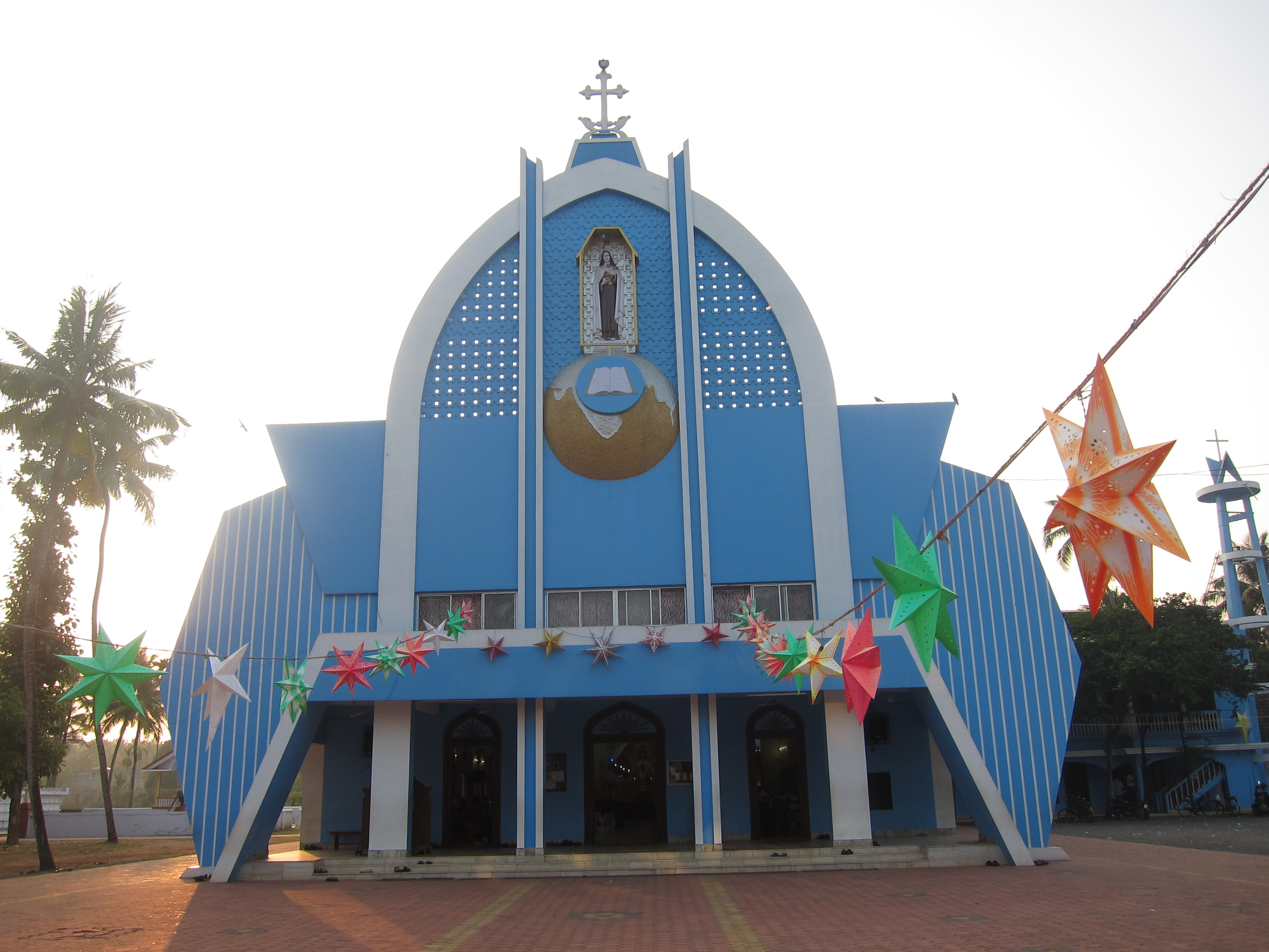 Little Flower Church, Potta, Chalakudy Forane Church, Irinjalakuda Diocese, Syro-Malabar Roman Catholic ചെറുപുഷ്പ ദേവാലയം, പോട്ട, ചാലക്കുടി ഫൊറോന പള്ളി, ഇരിങ്ങാലക്കുട രൂപത, സീറോ മലബാർ റോമൻ കാത്തലിക്